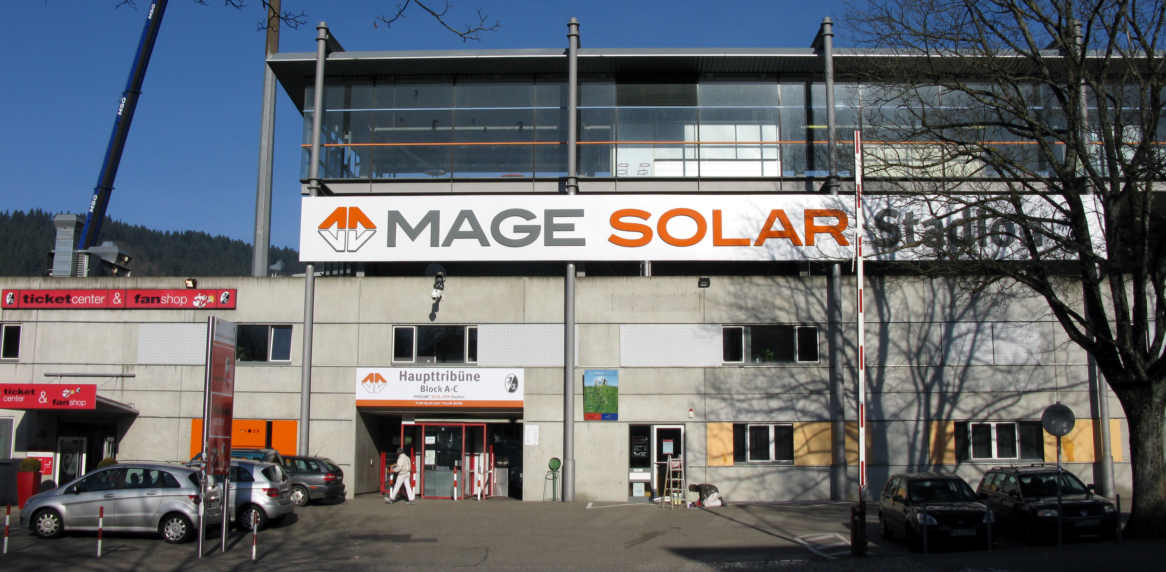 MAGE SOLAR Stadium